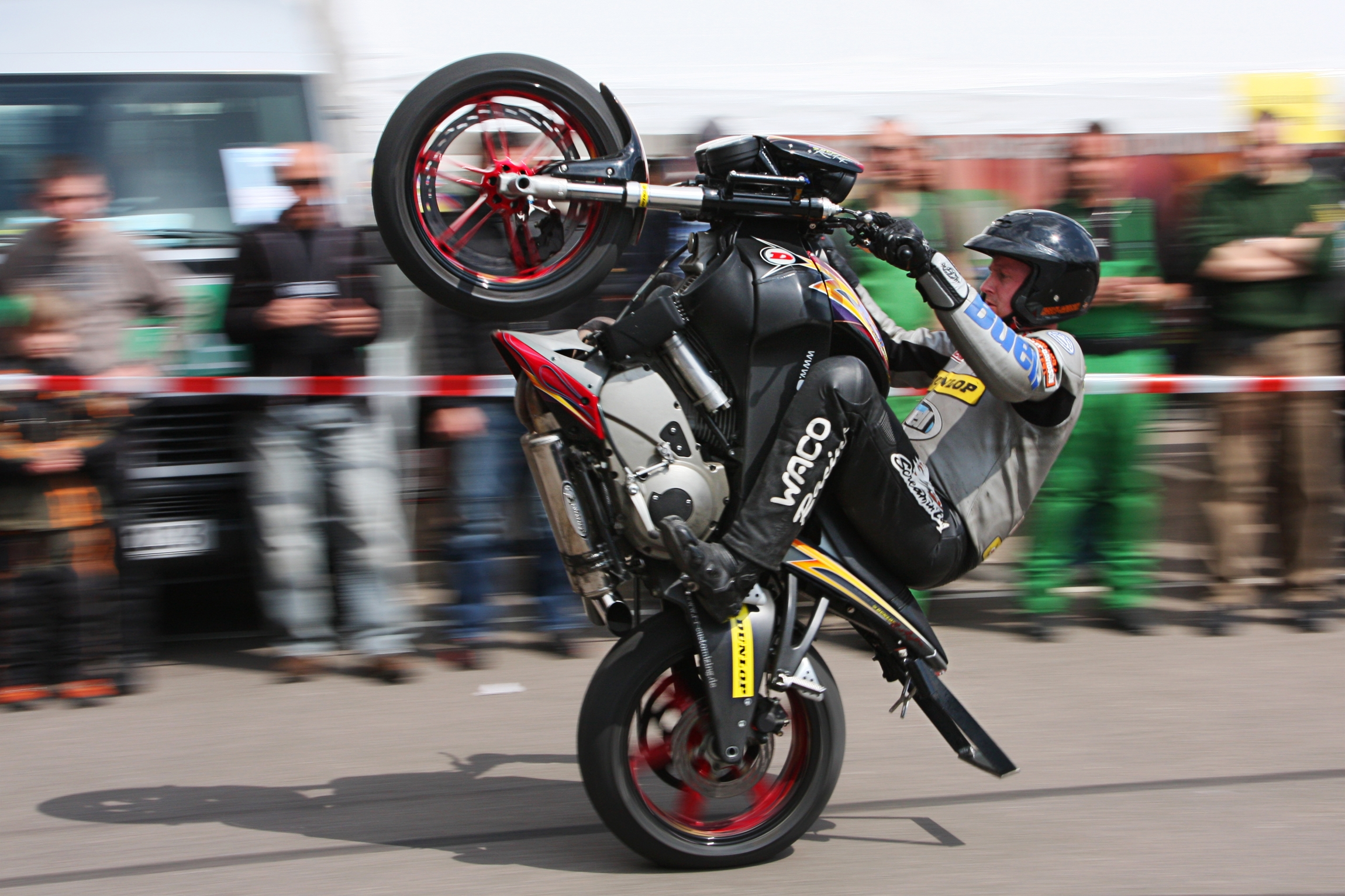 Motorcycle wheelie; driver: Rainer Schwarz. (Exif: Canon EOS 40D, 1/125s, f/14, 35mm)